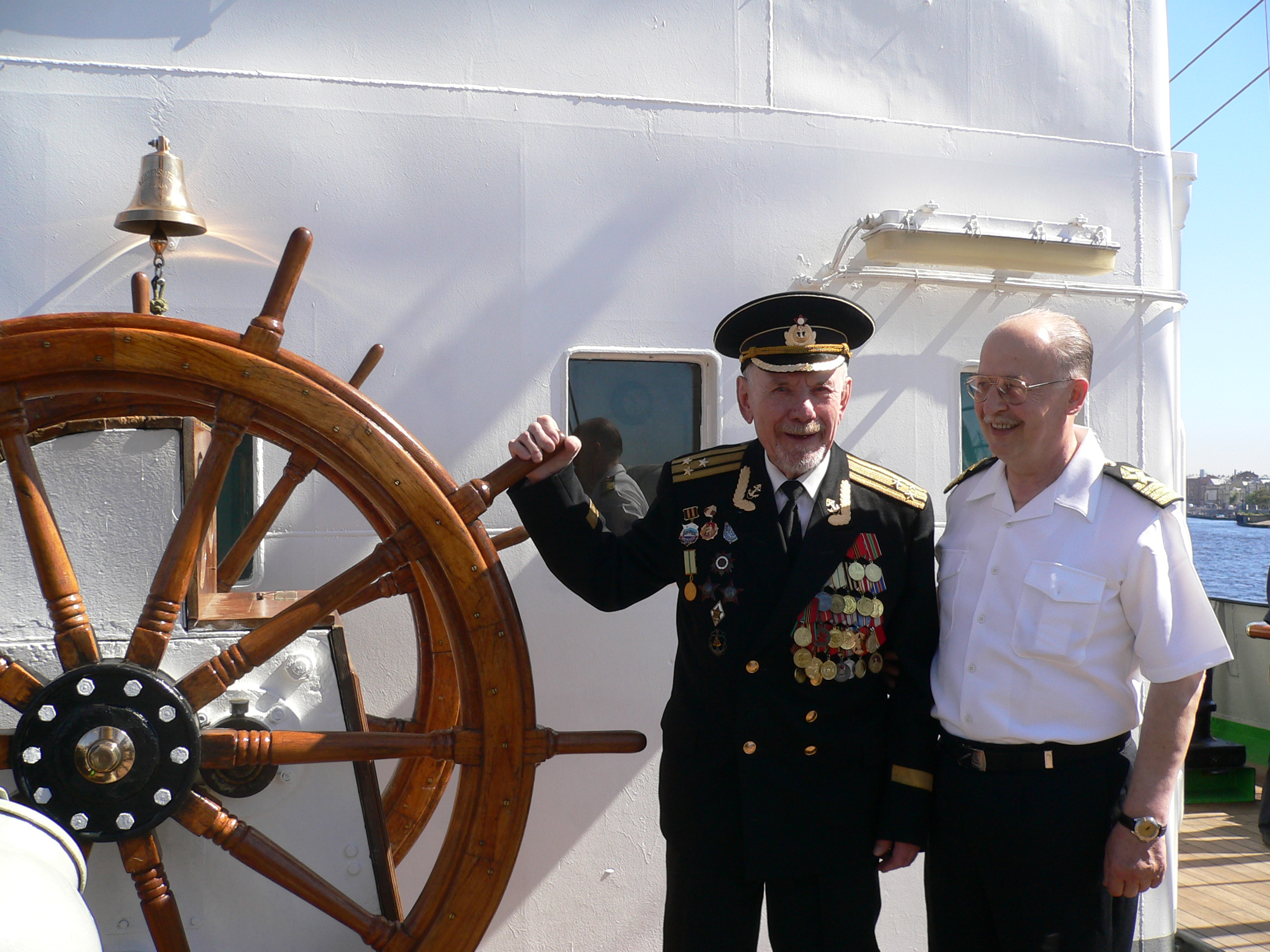 Власов почетный гость на Крузенштерне, 2004г